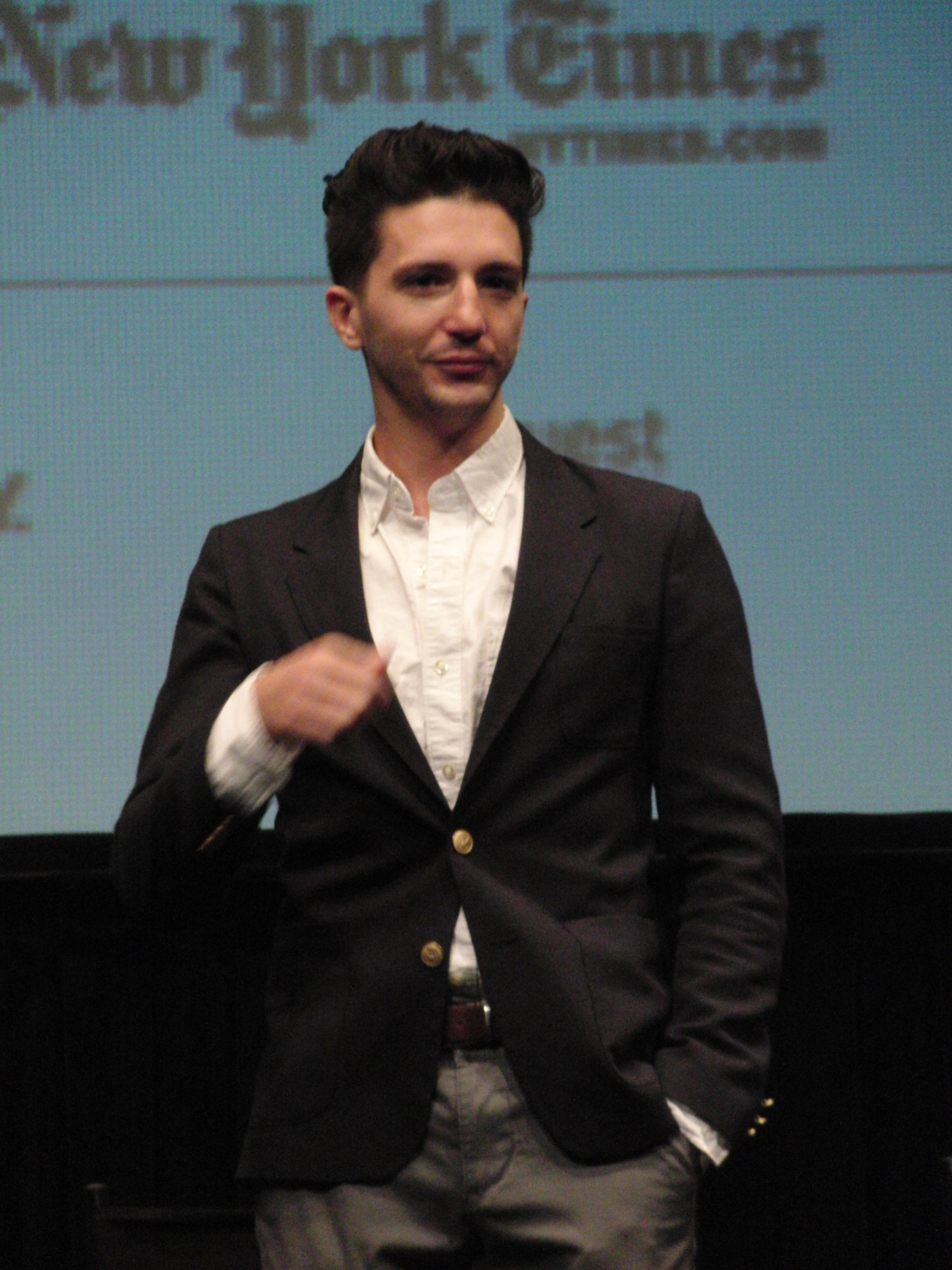 new york film festival 2012 john magaro not fade away 3